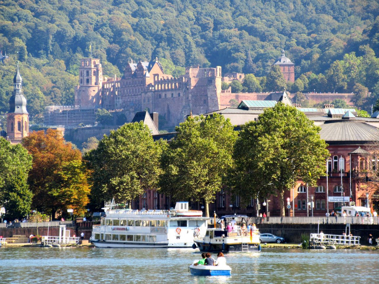 festival hall, Neckar river bank, Castle of Heidelberg